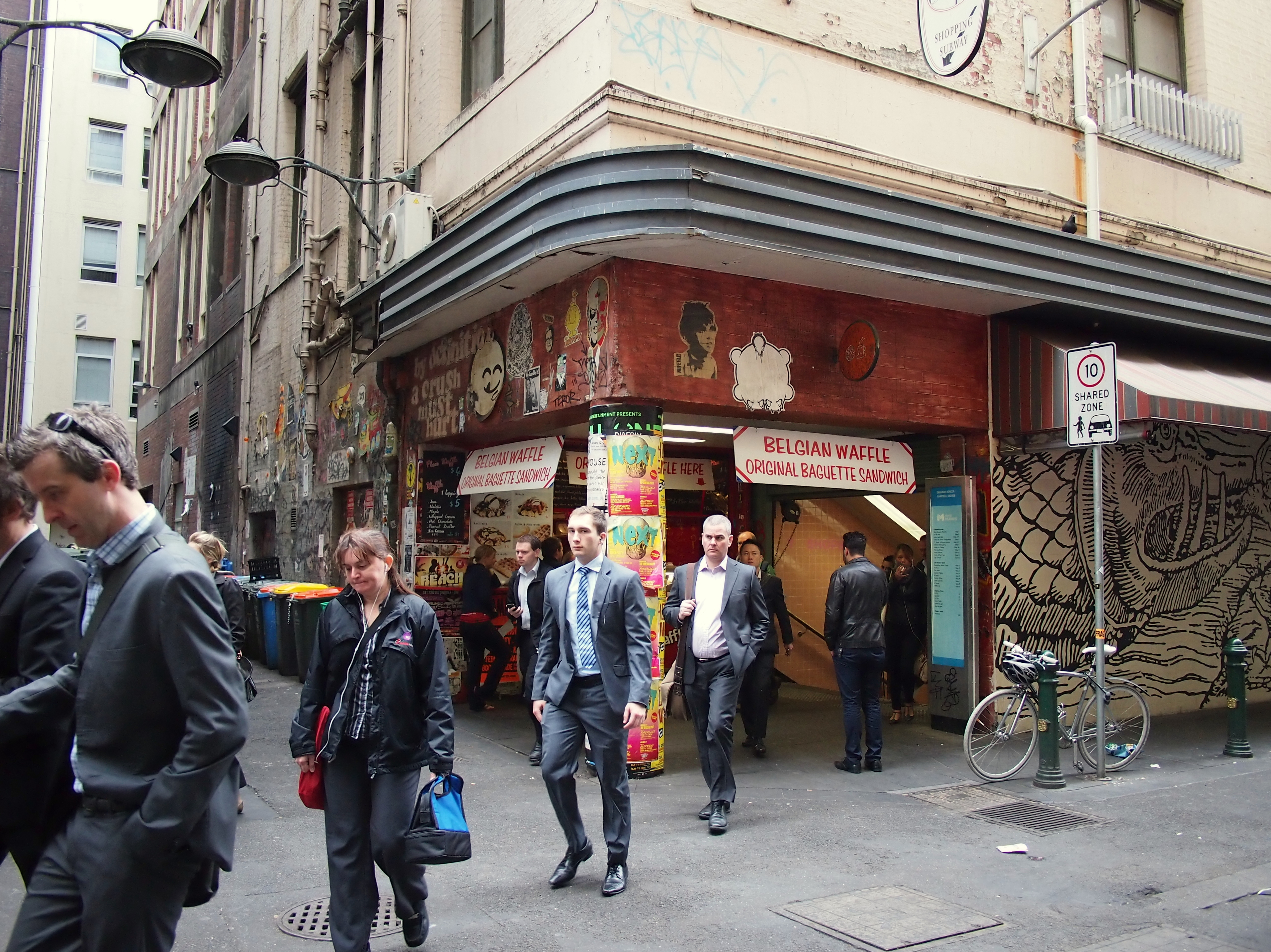 The Degraves Street exit from Flinders Street Station during the morning rush hour in December 2012